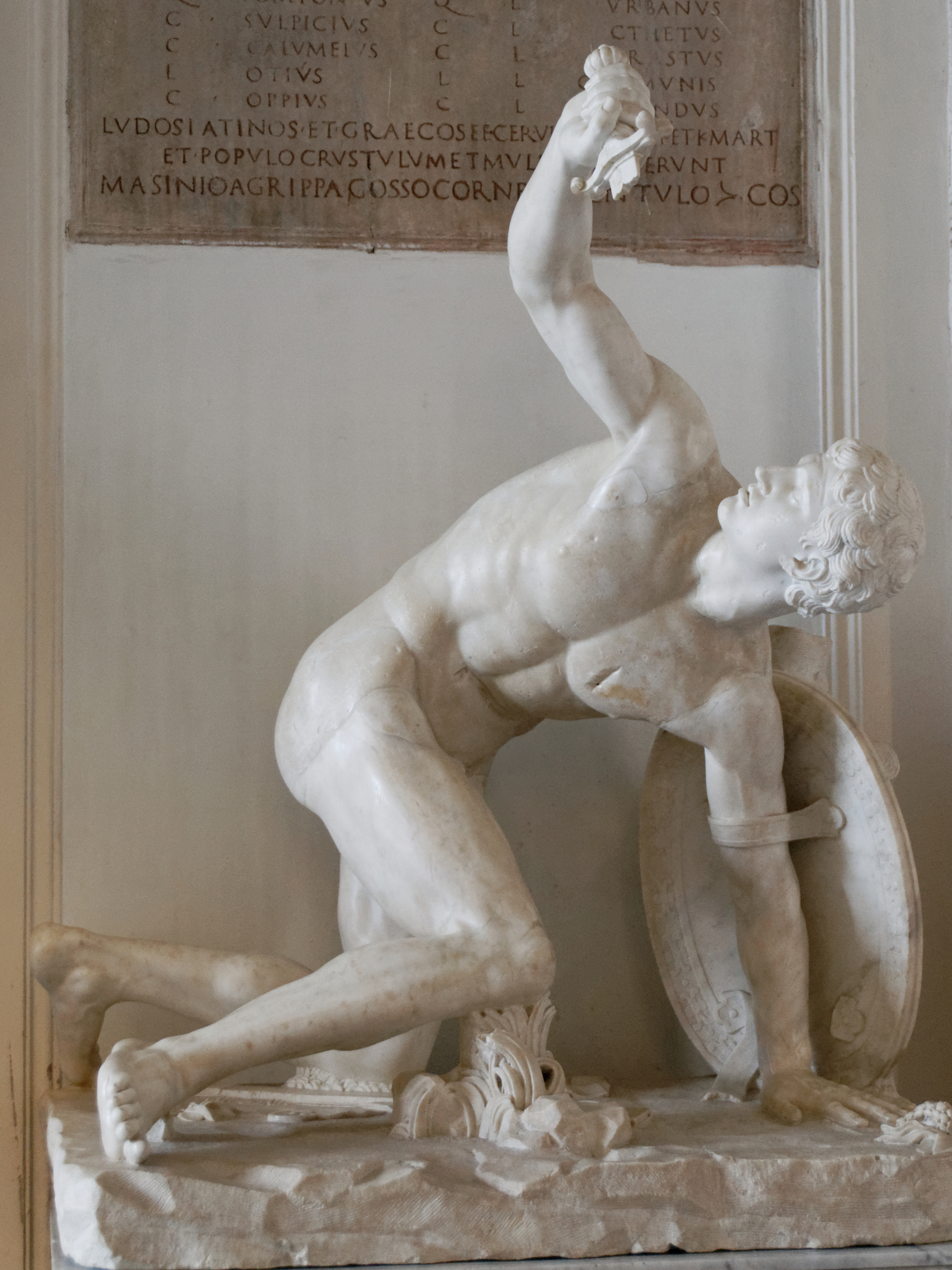 Only the torso is antique; it may be a copy of Myron's Discobolus. Was restored as a wounded warrior, on the model of the Pergamene statues known as the "Little Barbarians", by French sculptor Pierre-Étienne Monnot (1658-1733).